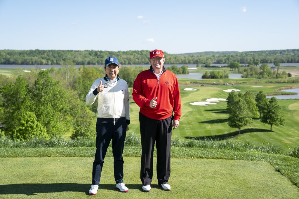 President Donald J. Trump playing golf with Japanese Prime Minister Shinzo Abe in Trump National Golf Club, April 28, 2019